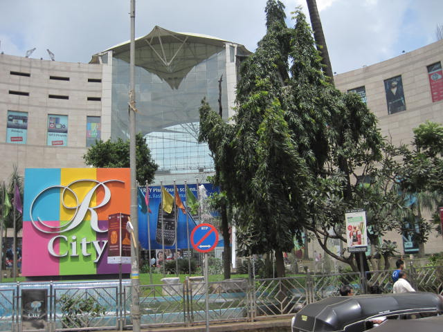 The R City Mall building at Ghatkopar in Mumbai, India.